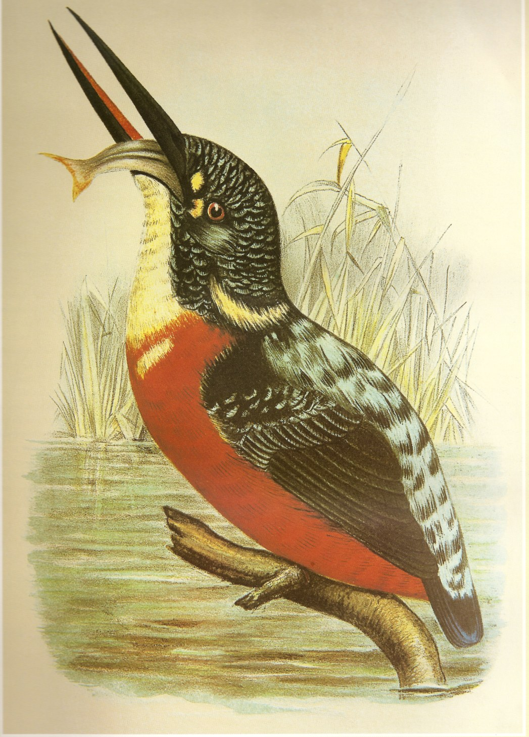 Blyth's Kingfisher (Great Blue Kingfisher) Alcedo hercules Laubmann